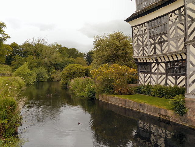 Section of the moat at Little Moreton Hall, Cheshire, England